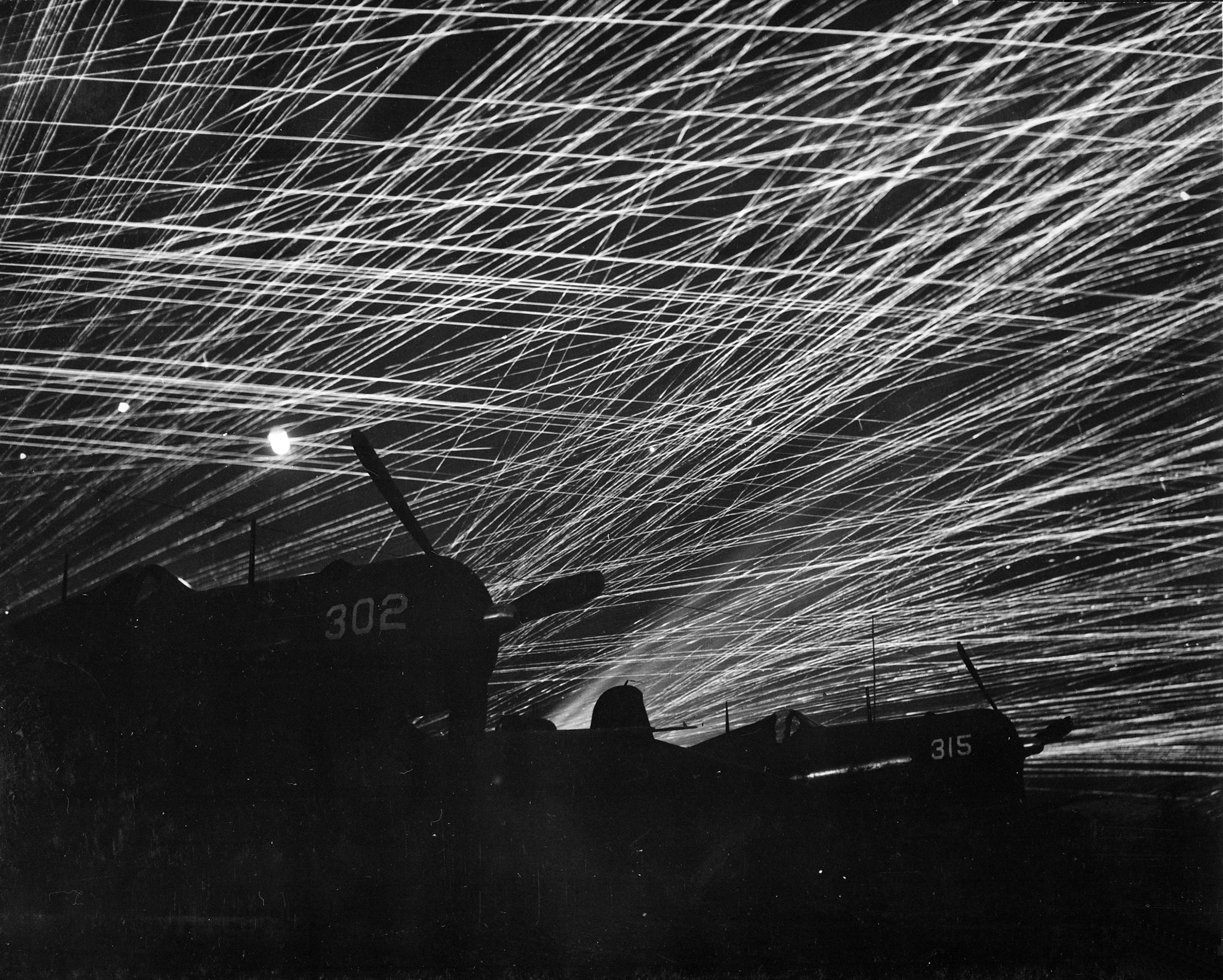 Original caption: "Japanese night raiders are greeted with a lacework of anti-aircraft fire by the Marine defenders of Yontan airfield, on Okinawa. In the foreground are Marine Corsair fighter planes of the "Hell's Belles' squadron."